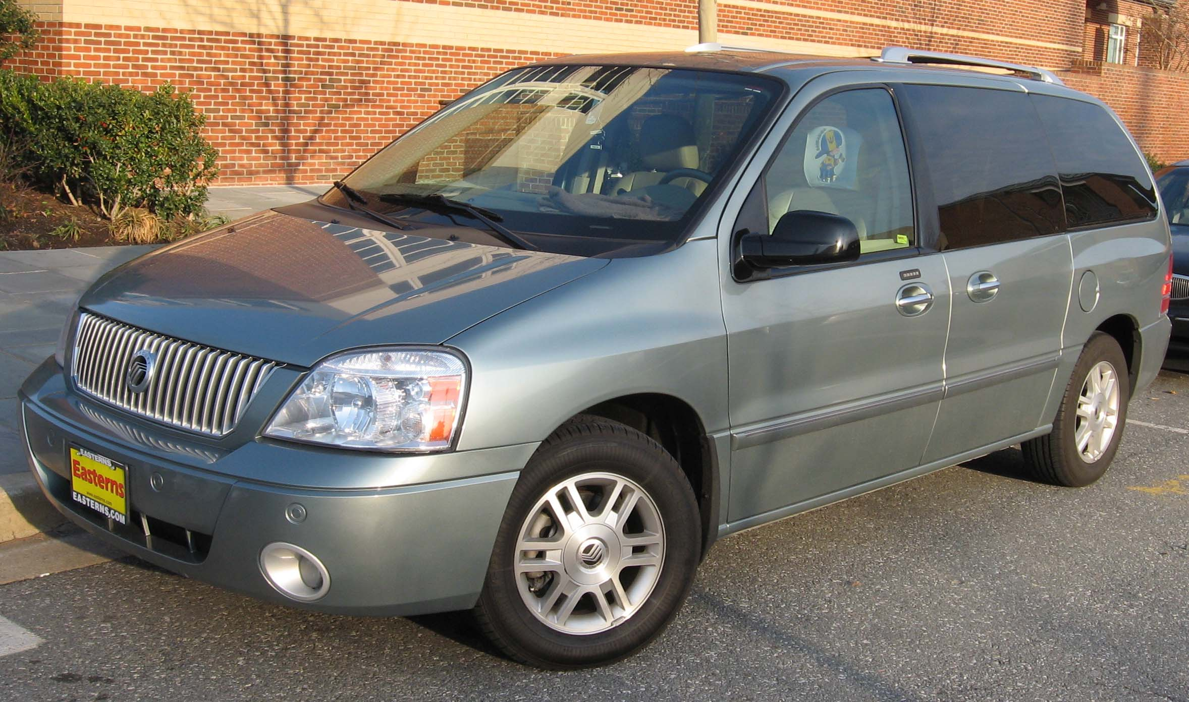 2004-2007 Mercury Monterey photographed in College Park, Maryland, USA.